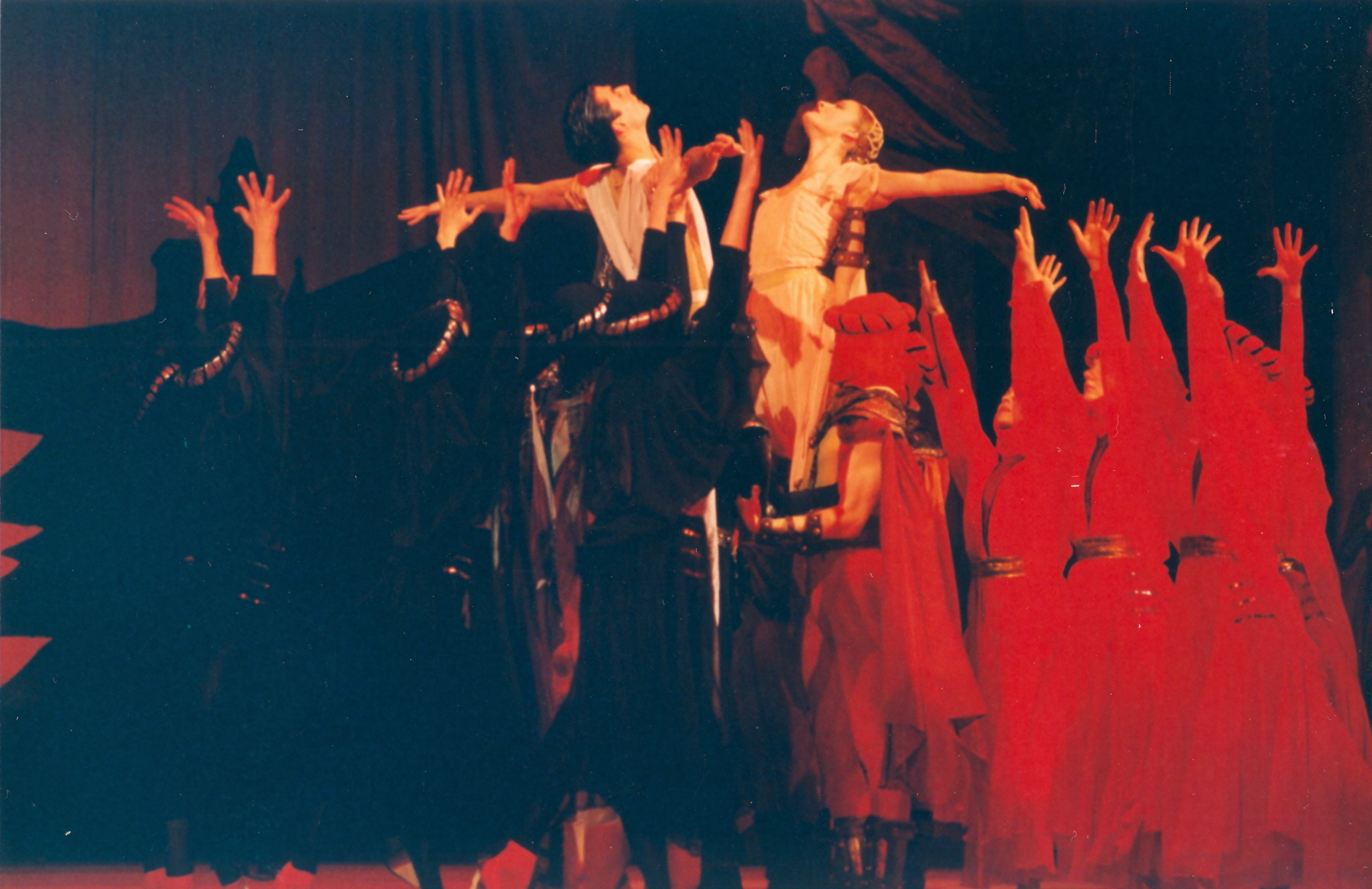 The photo was taken during a performance of "Romeo and Juliet"